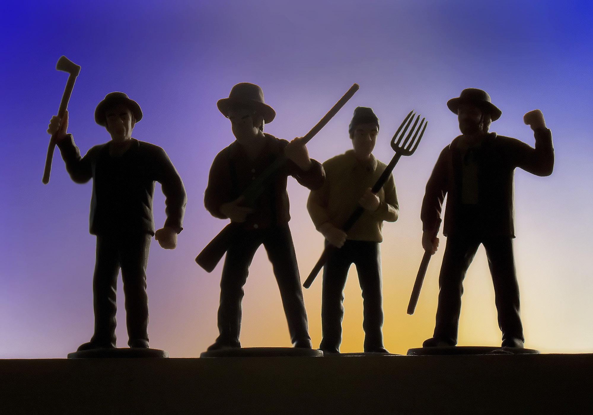 Four men, perhaps farmers, make angry gestures while holding an axe, rifle, pitchfork and stick. They typify the traditional Western concept of an angry rural mob protesting something with the threat of violence.